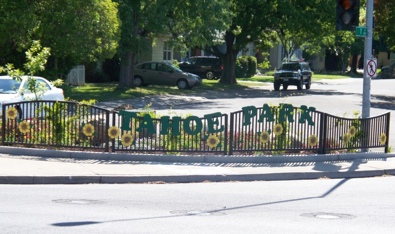 Photograph of Highway 50 gateway to Sacramento's Tahoe Park neighborhood, located at the intersection of 59th and T Streets.